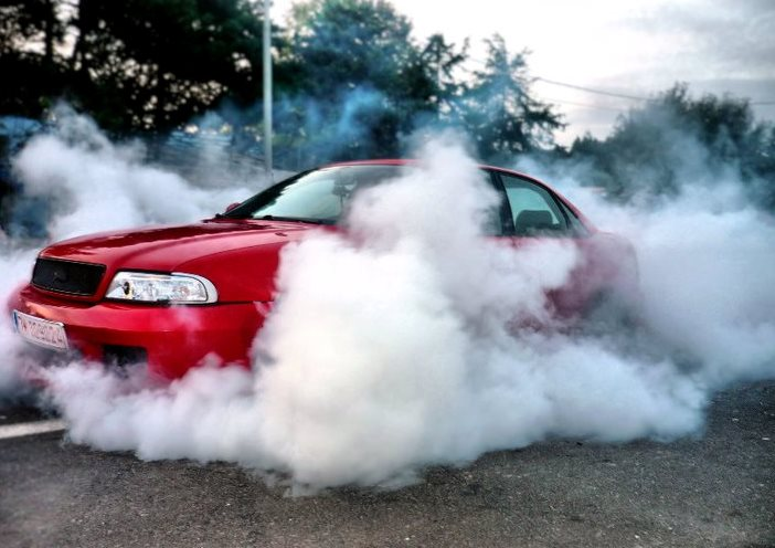 Rebel racing club meeting